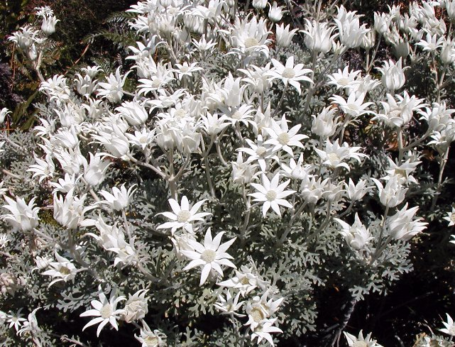 Flannel Flowers growing at Henry Head, Botany Bay National Park